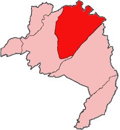 Map of Lofa County, Liberia showing Voinjama District; created with the GIMP. Made by User:Acntx.